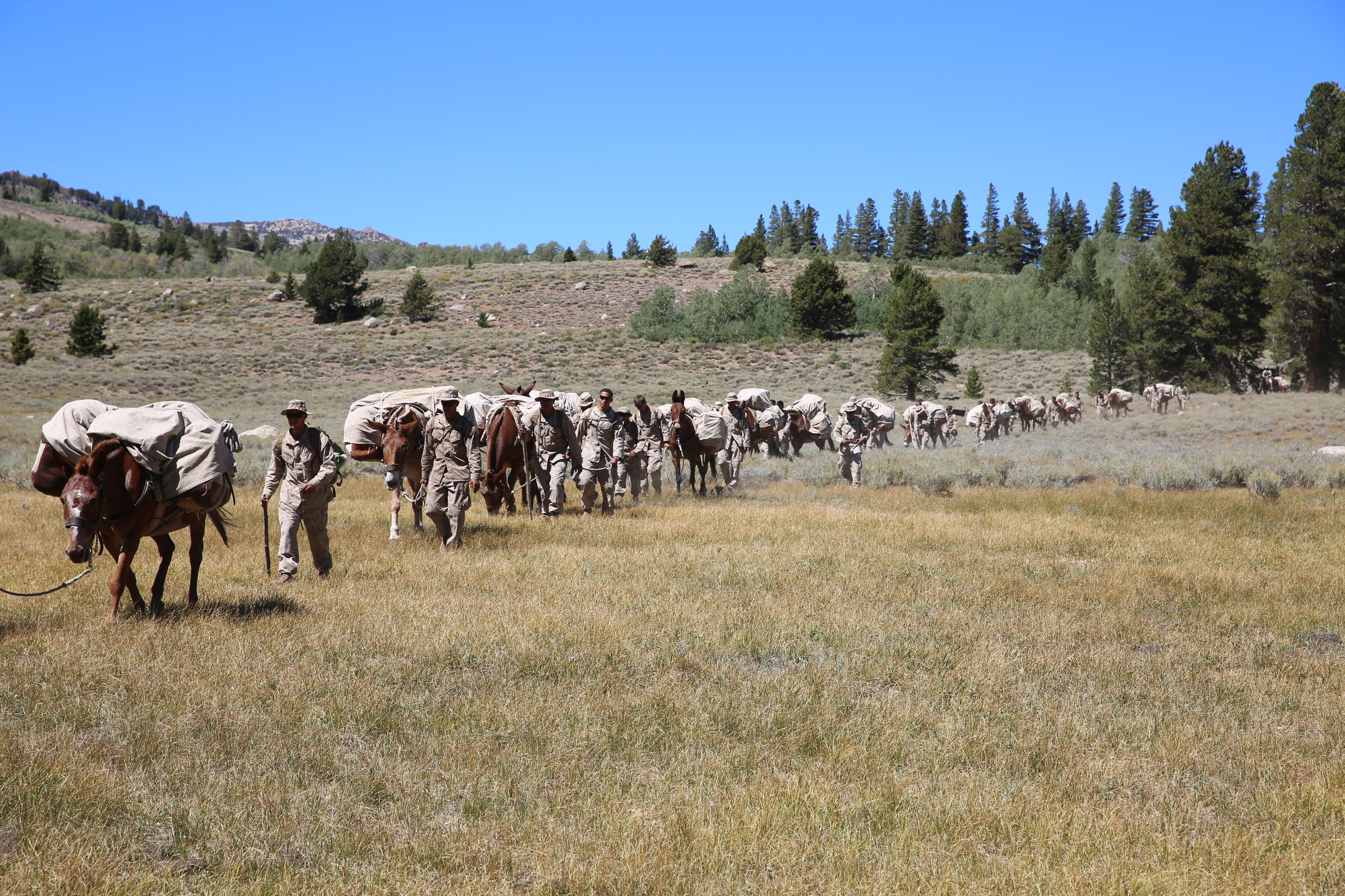 Marines from 3rd Battalion, 1st Marine Division, 1st Marine Expeditionary Force recently conducted training aboard Marine Corps Mountain Warfare Training Center in Bridgeport, Calif., Aug. 18 to Sept. 17, 2014. The month-long exercise trained Marines in many facets all centered on mountaineering skills and high-altitude warfare. Assault climbing, rappelling, horse and mule packing, and small unit movements were all included during the exercise.